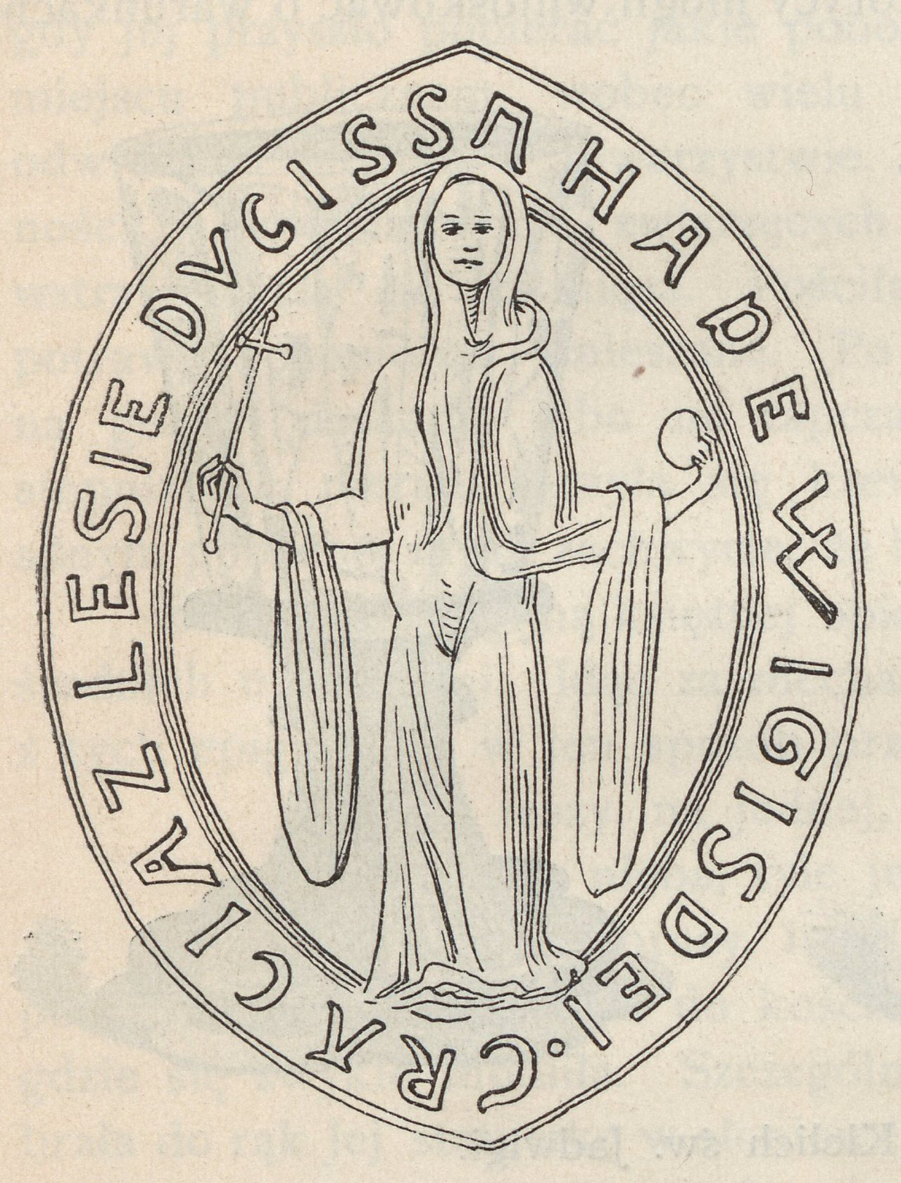 Seal of Hedwig of Andechs